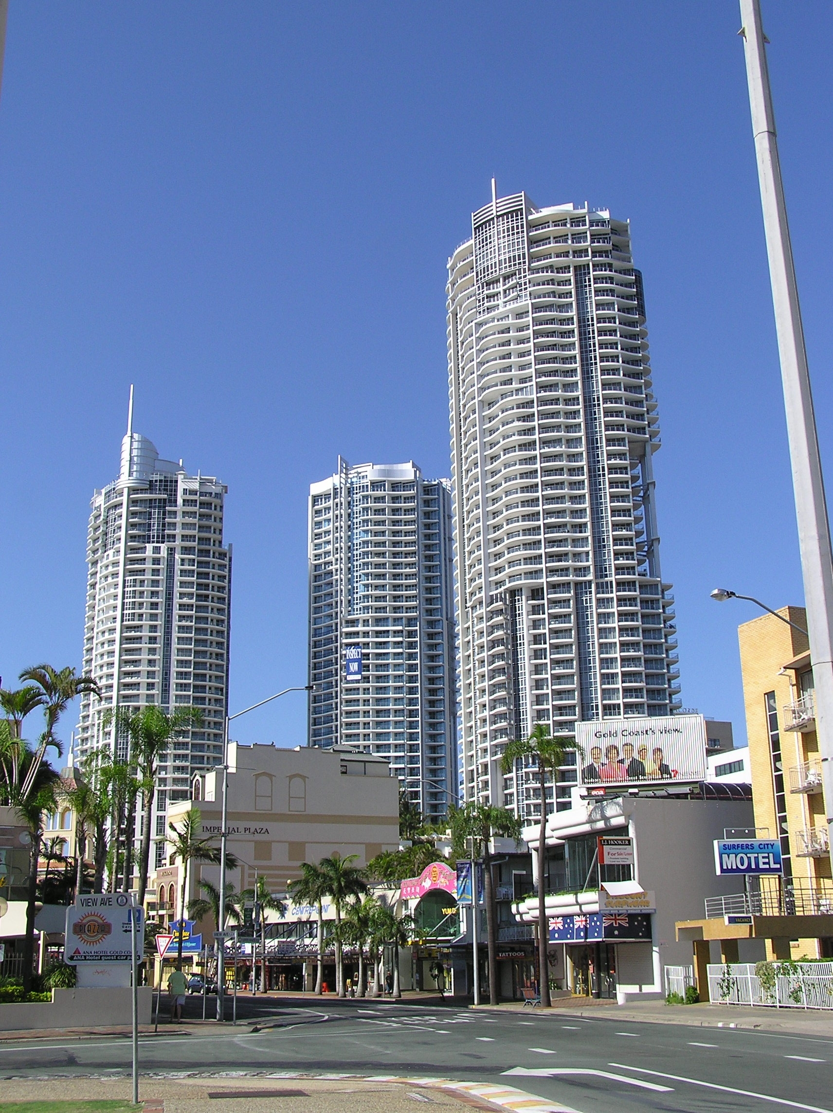 The Towers of Chevron Renaissance in the Gold Coast Highway